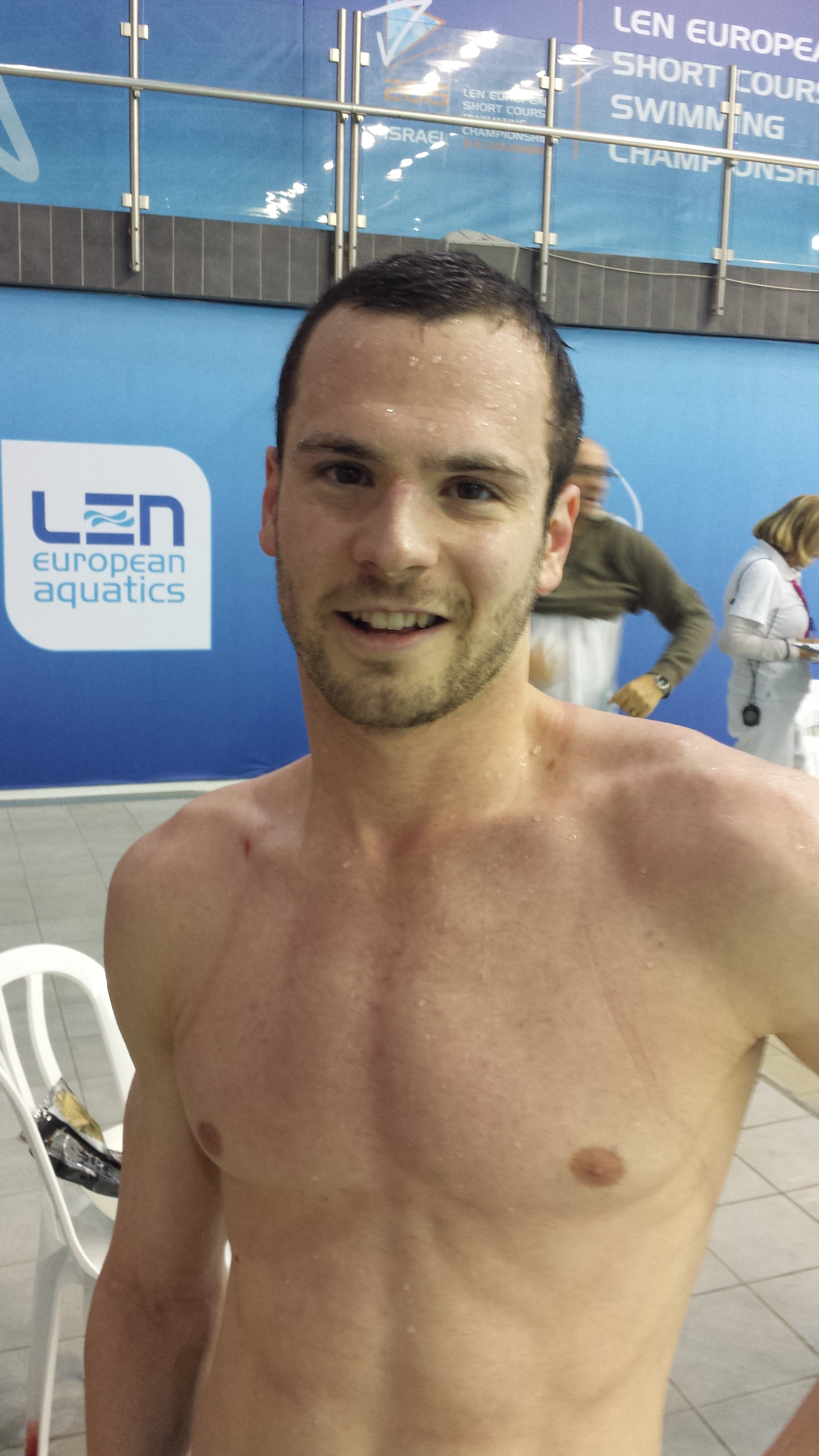 Idan Mordel, Israeli champion in swimming 5 km, Wingate Institute, Israel, January 2016